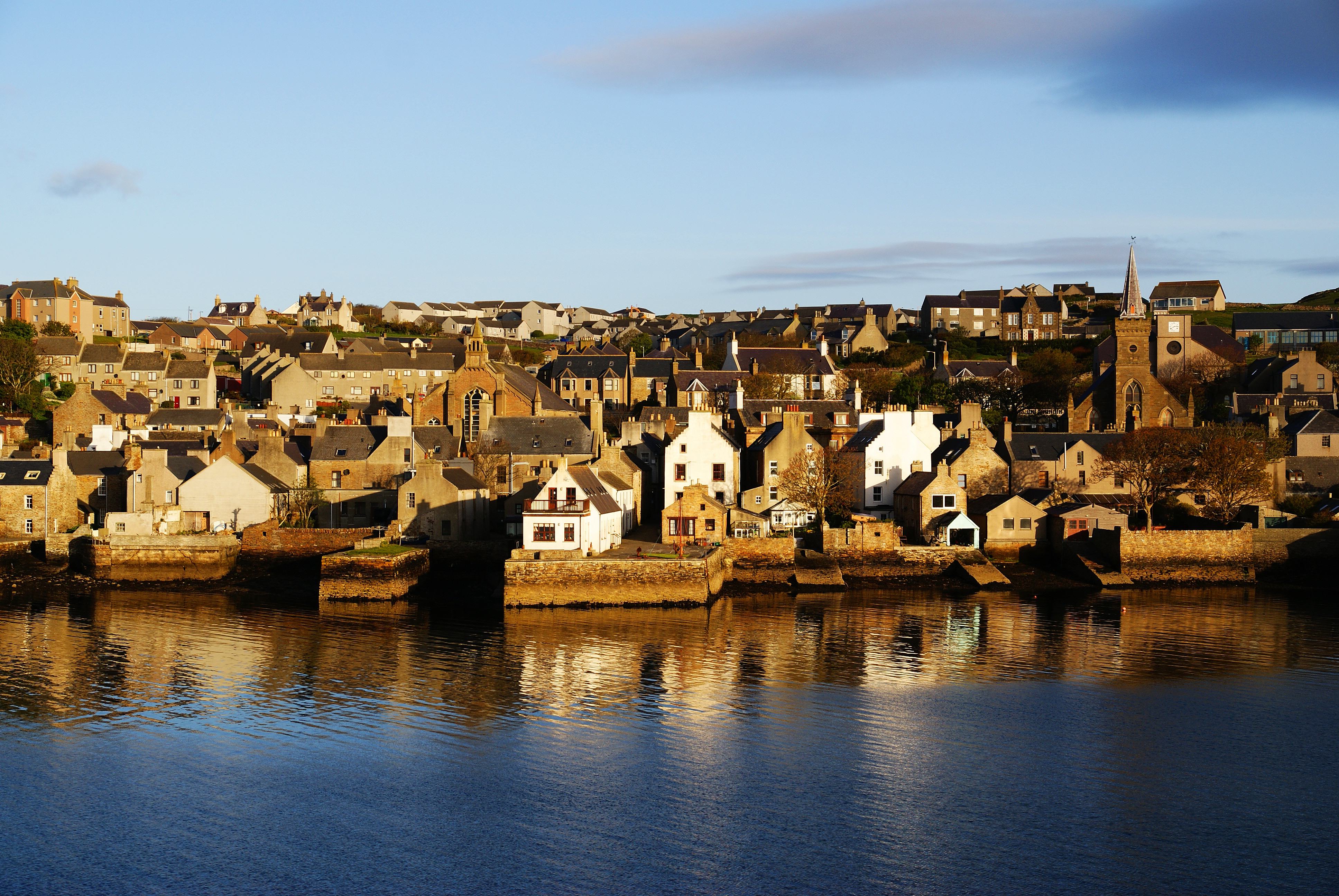 The town of Stromness, Orkney Islands, Scotland, UK. The two church buildings are clearly visible. The one with the spire in the right is the former North Church converted into a Town Hall.